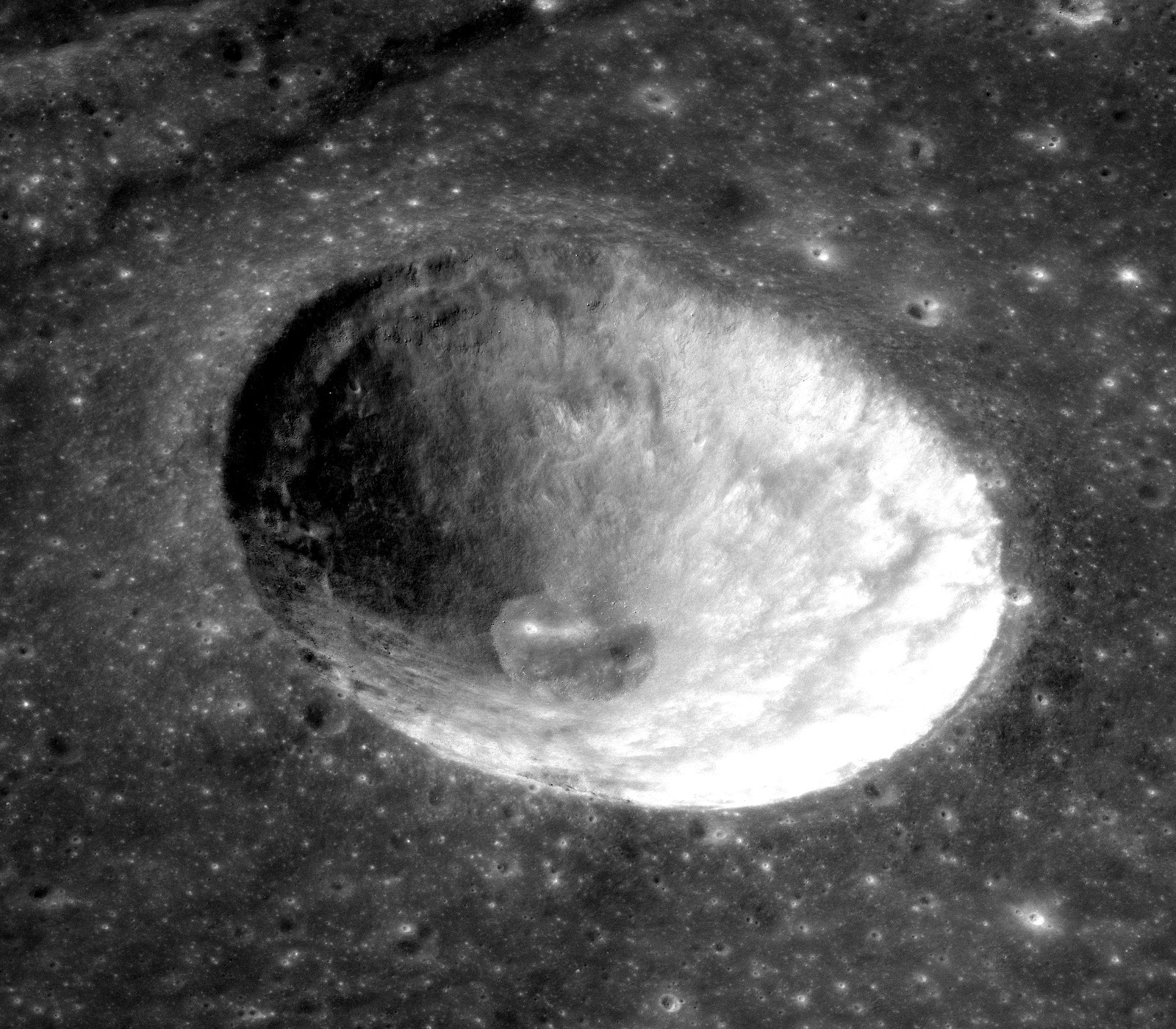 Oblique view of Fahrenheit crater, within Mare Crisium, facing south, on the moon. Taken by Apollo 17 panoramic camera.